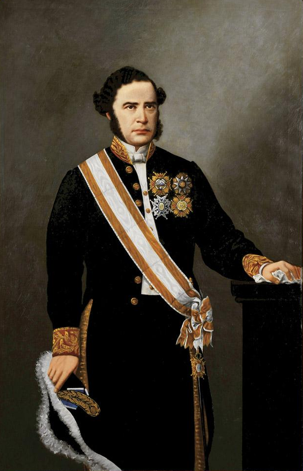 Manuel José Leite Ribeiro e Silva (1817-1883), 1st Baron of Urgeira.